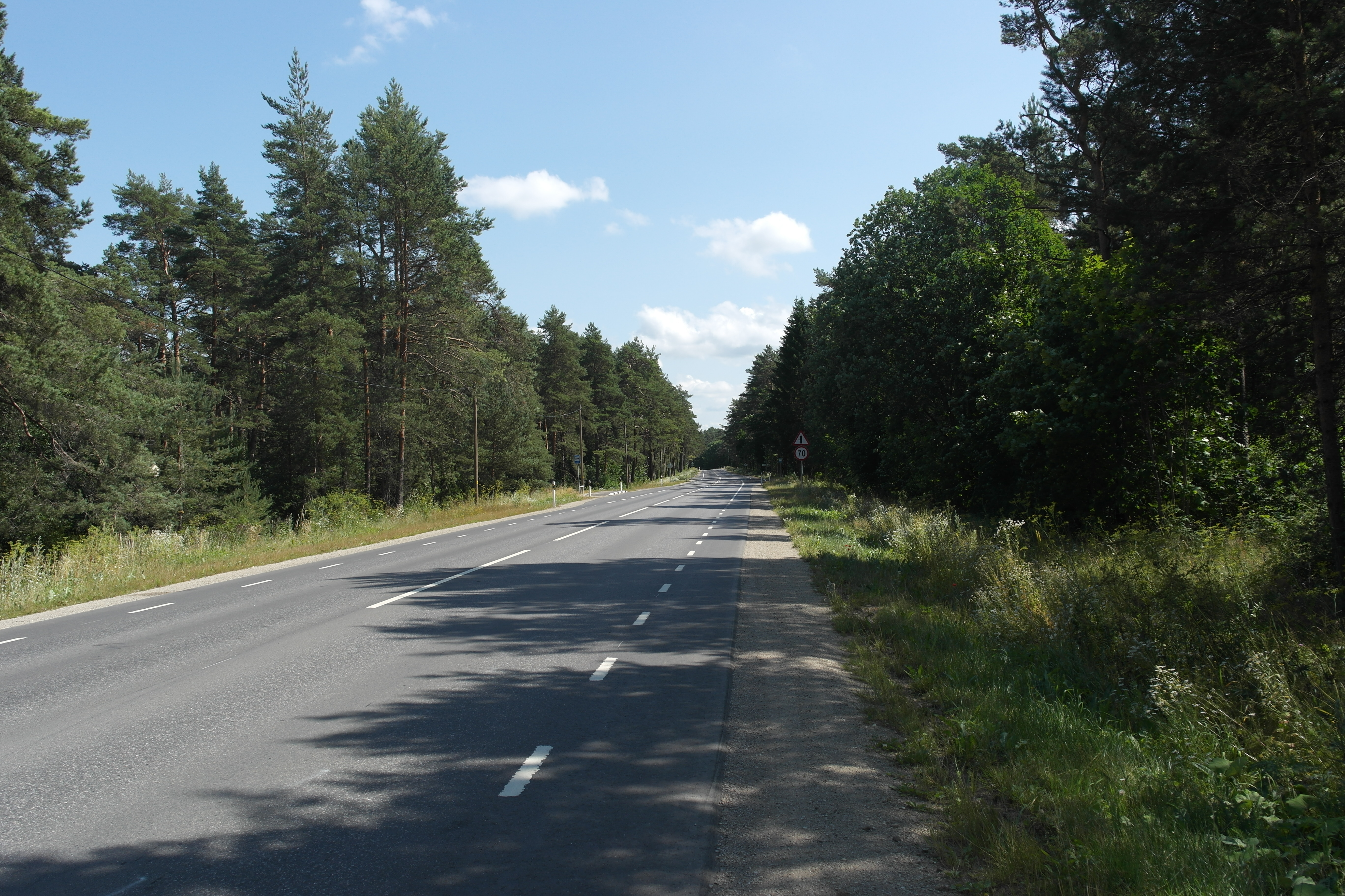 Lagedi-Aruküla-Peningi road